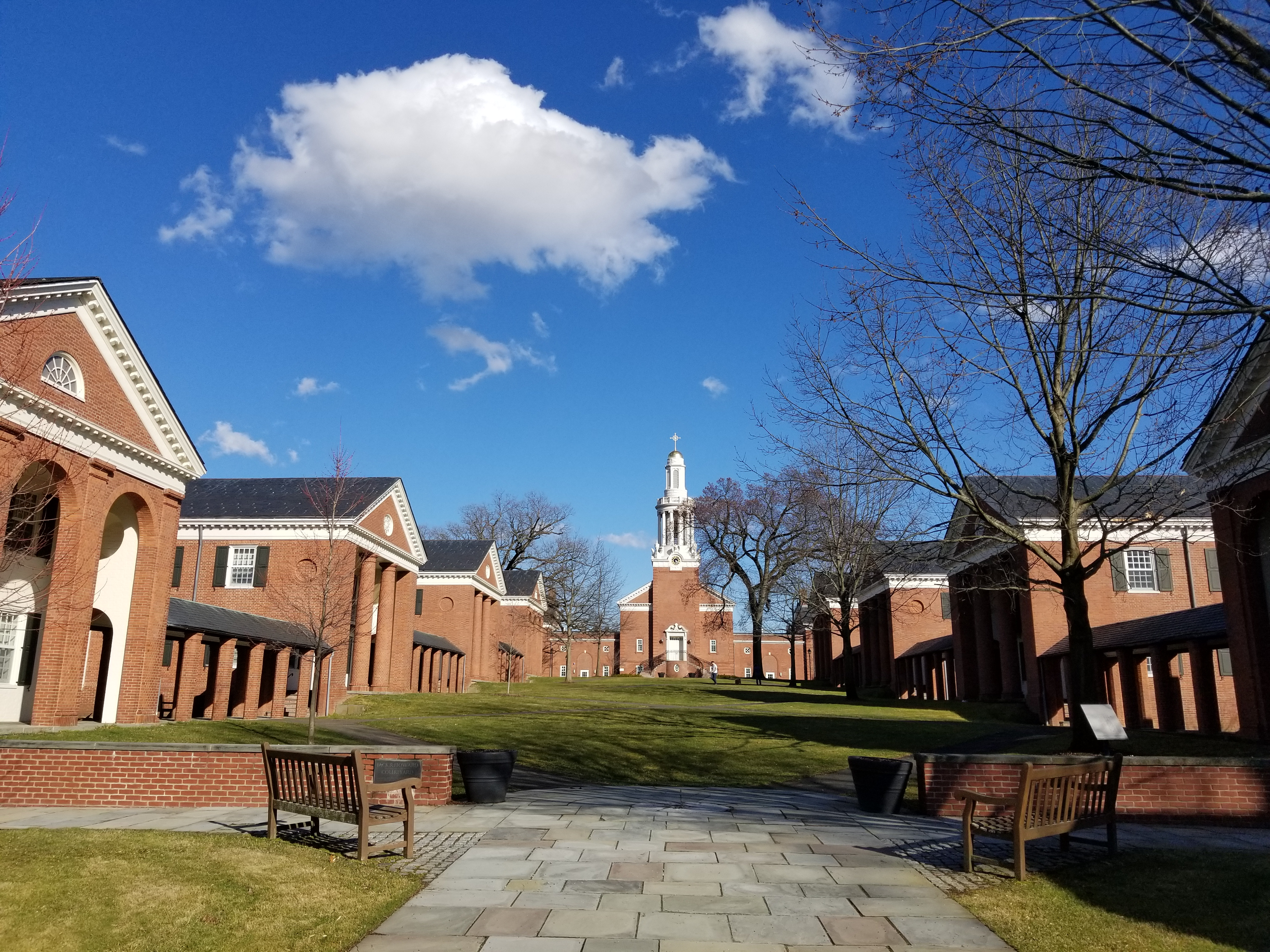 Spring 2020, Sterling Divinity Quadrangle